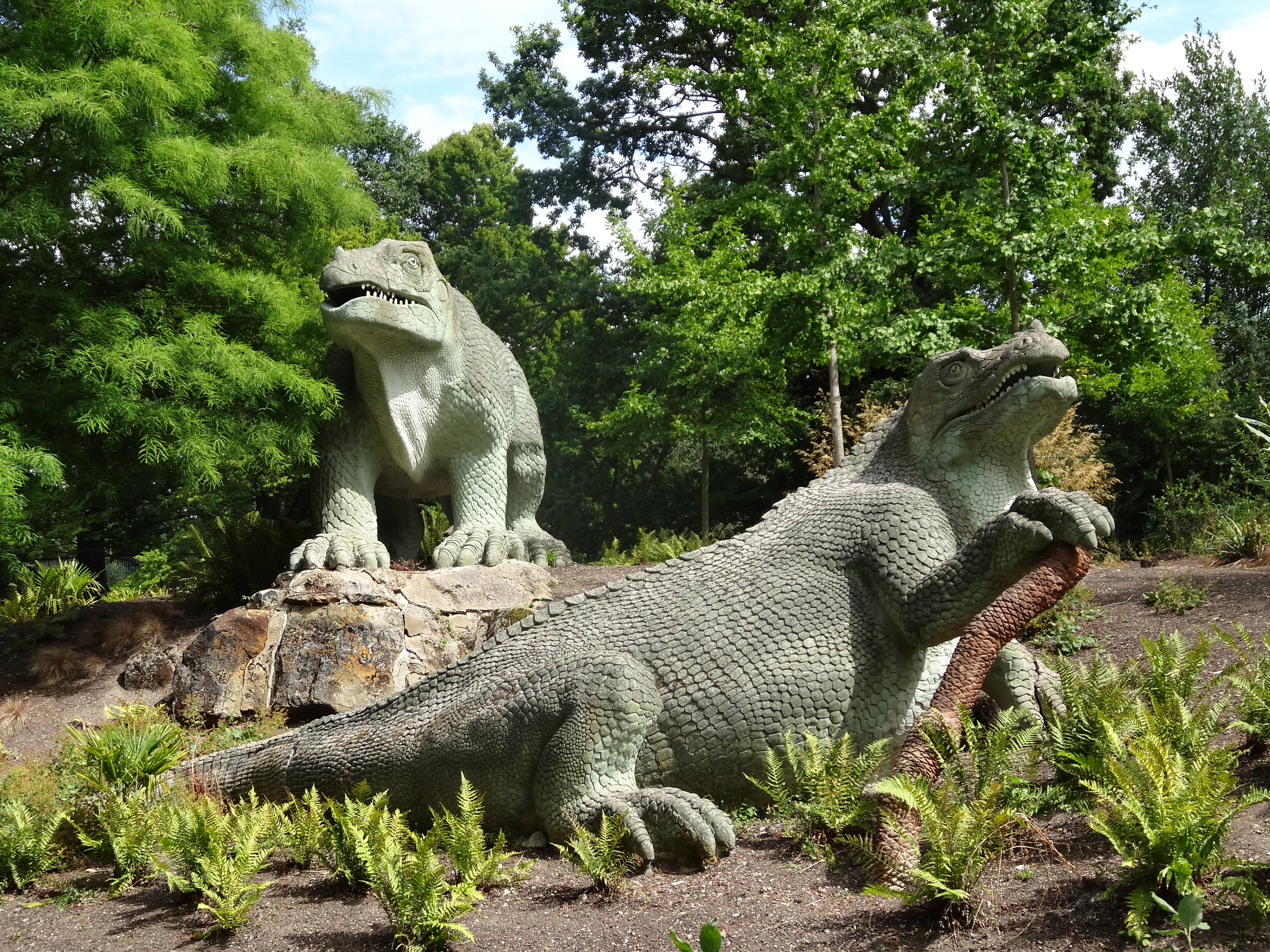 088 - Dinosaurs in Crystal Palace Park